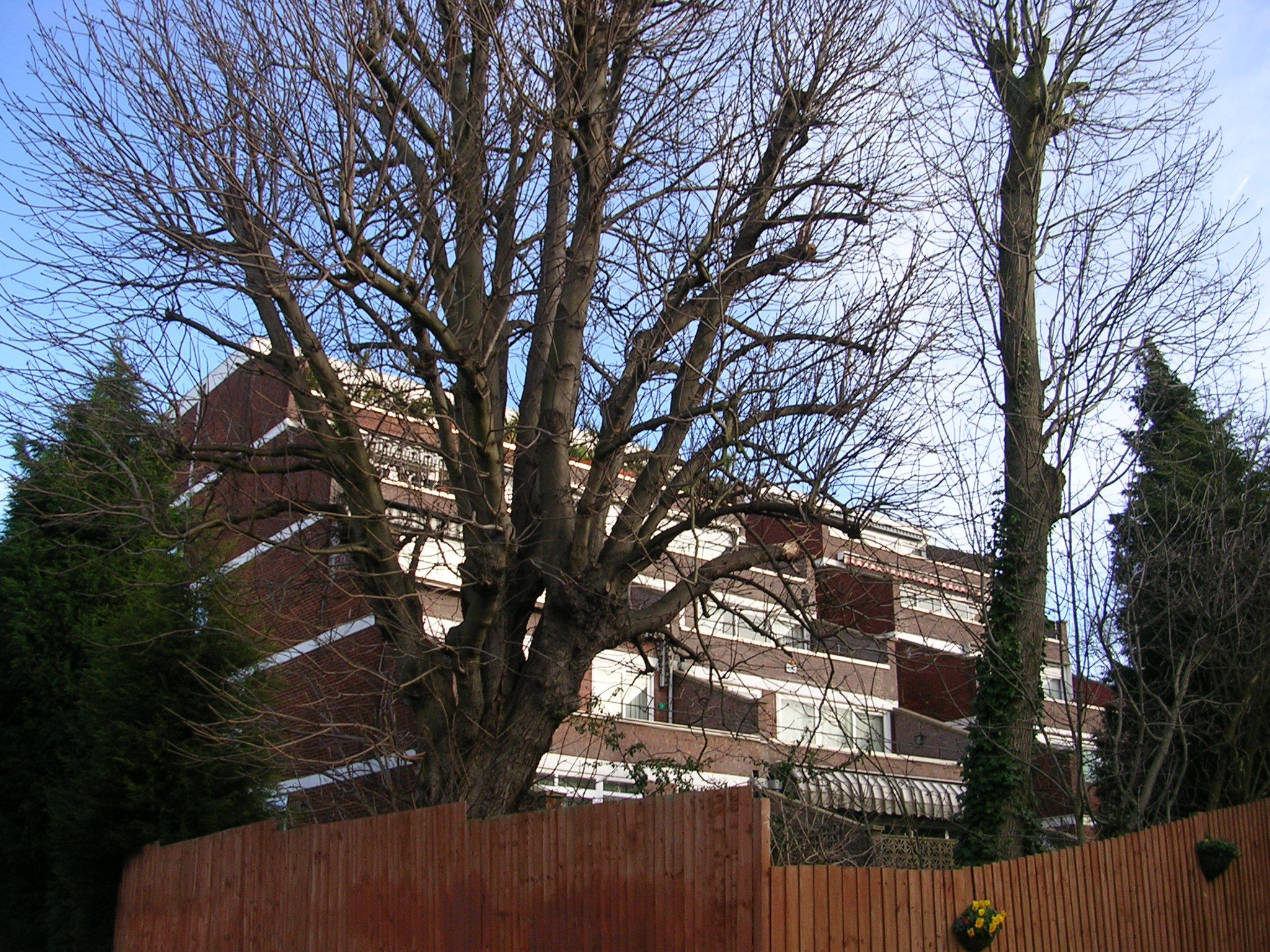 Tropicana, Beulah Hill apartments, London Borough of Croydon, designed by Joyce Lowman and built by Frank Pullen and sons ltd circa 1972